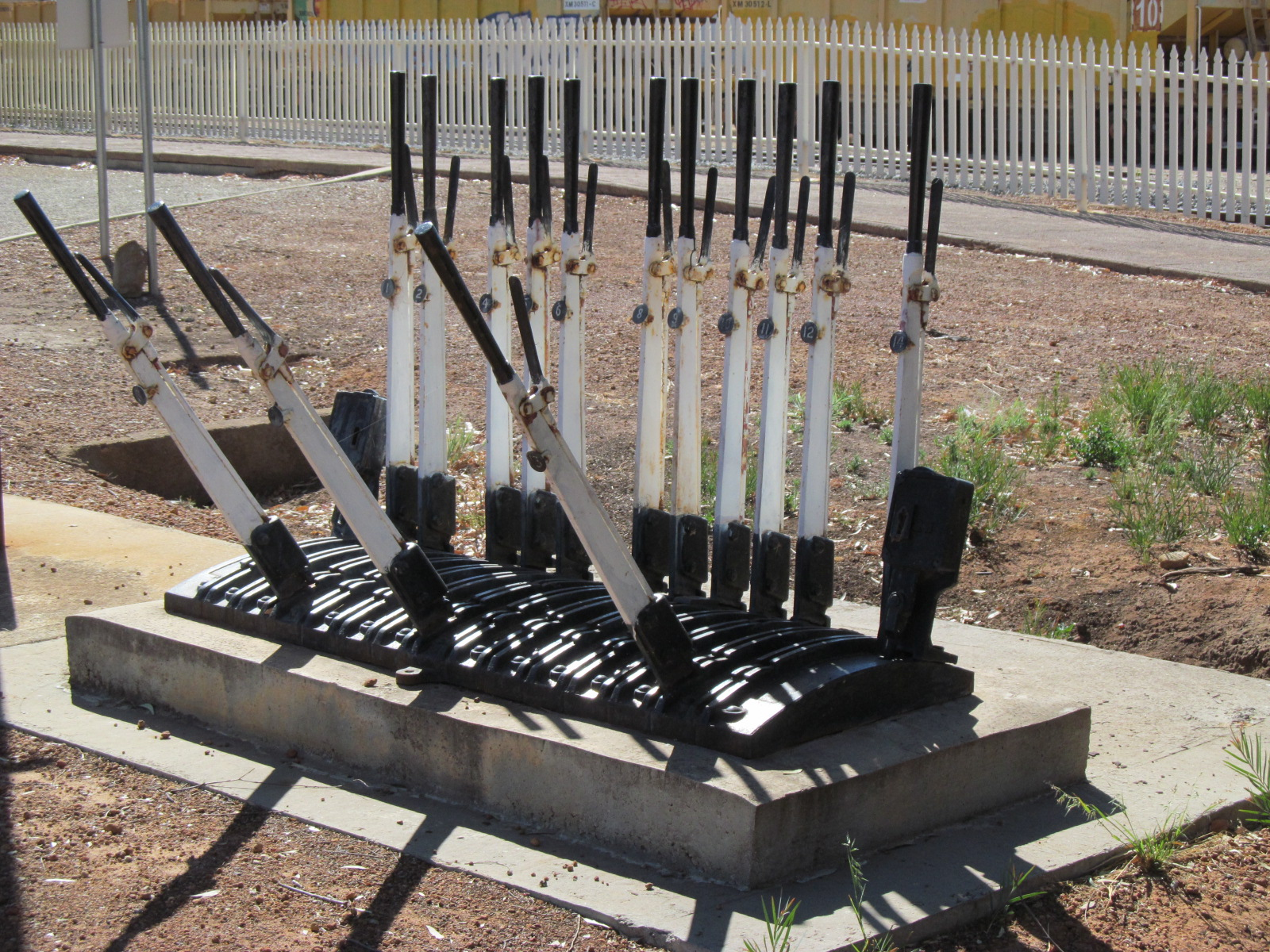 Signal box at Goomalling railway station, Western Australia